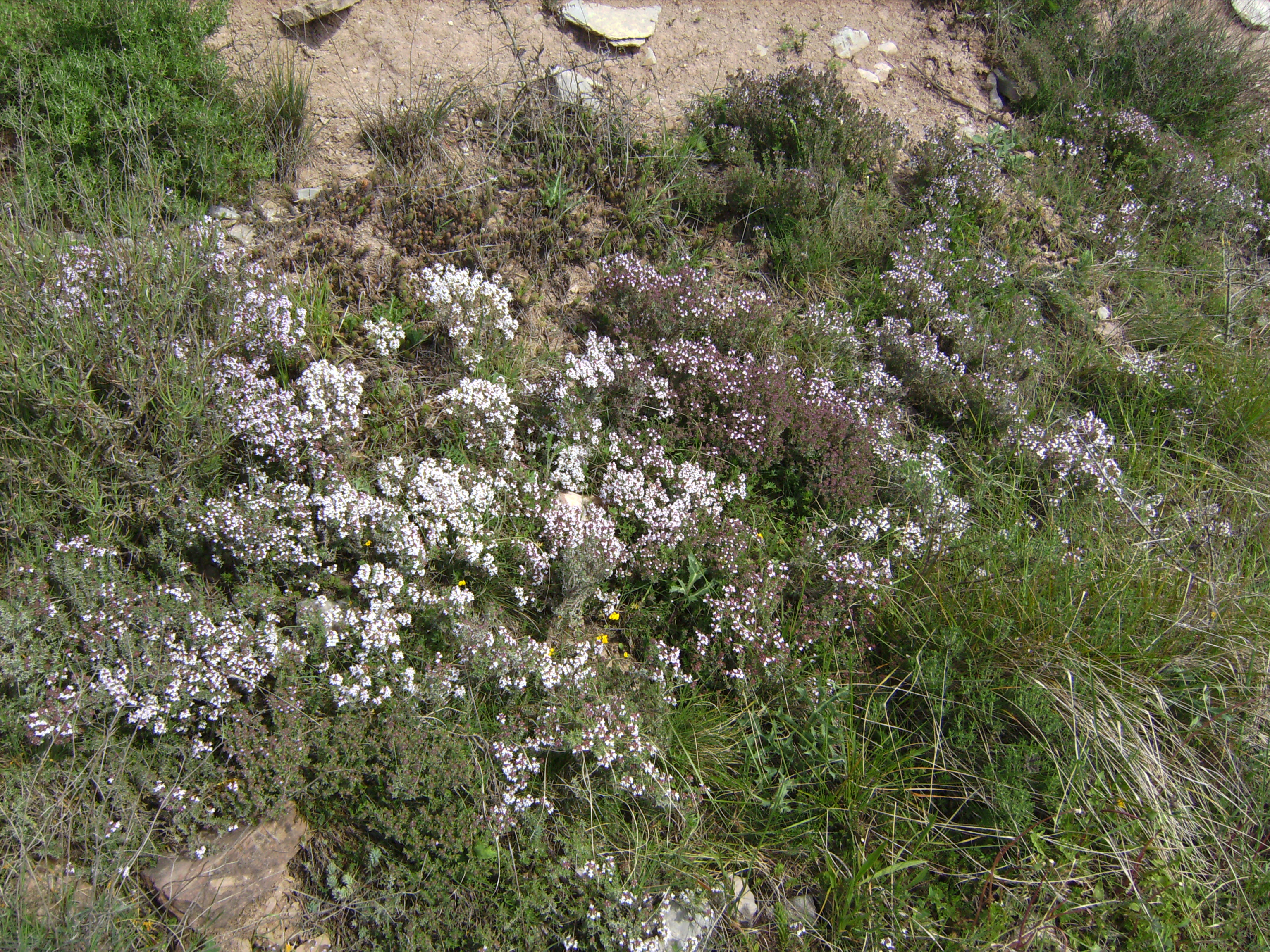 Thyme (Thymus vulgaris) plants in the wild, Catalonia